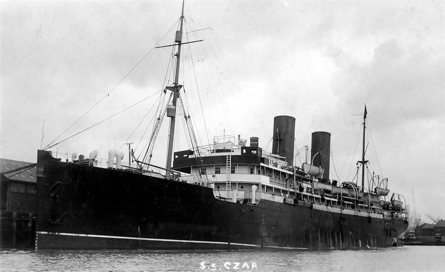 SS Czar (or Царь in Russian) seen in port on the postcard mailed in May 1920. Czar was a Russian American Line ocean liner. She was later known as SS Estonia (1921), SS Pułaski (1930), and SS Empire Penryn (1946). The ship was scrapped in 1949. Information about Czar may be found at IMO 1142324. A ship can change her name and flag state through time, but the IMO number remains the same through the hull's entire lifetime. Therefore, it's useful to identify a ship through her IMO number.